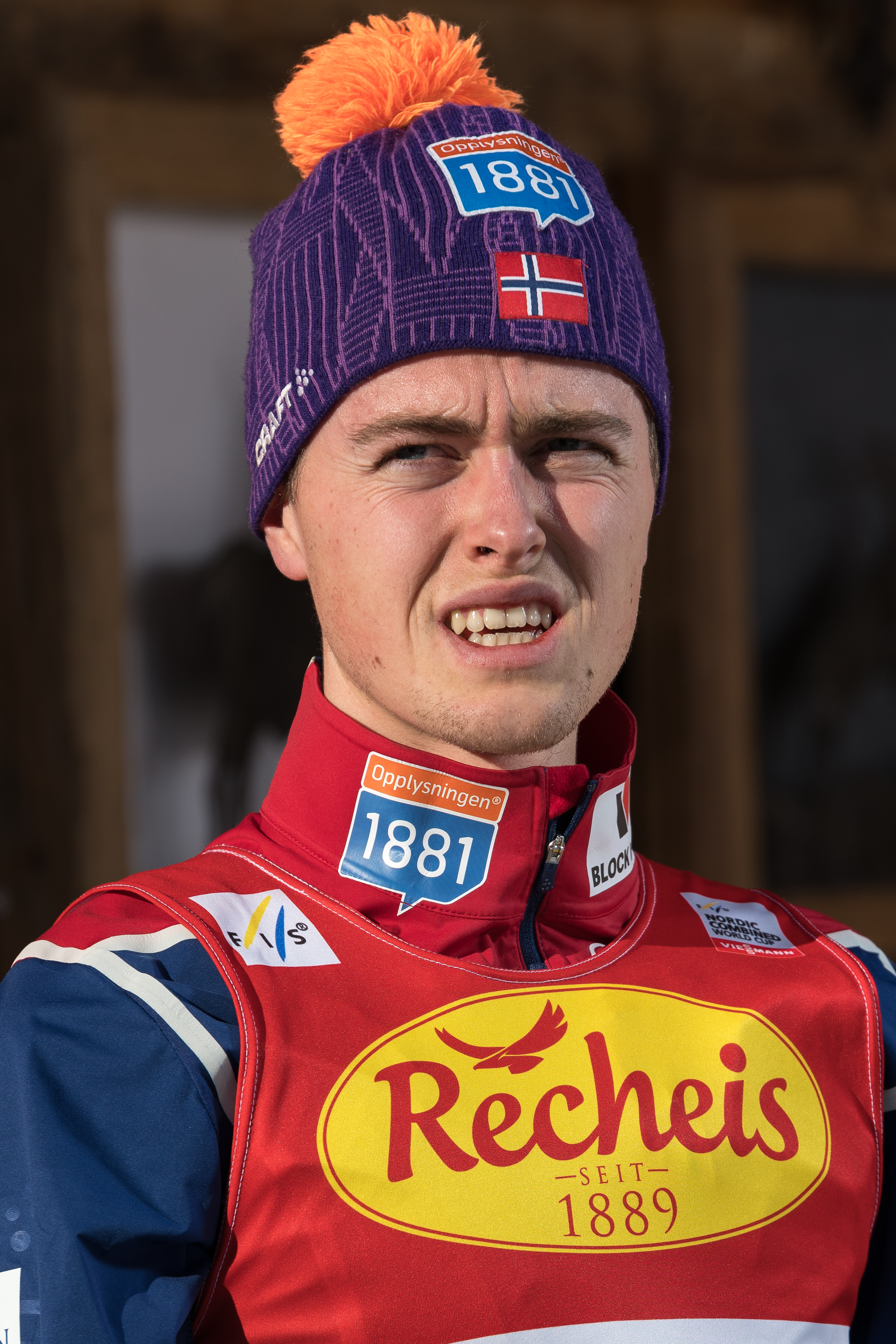 Seefeld-Triple 2018, first day January 26th. Picture shows Sindre Ure Søtvik